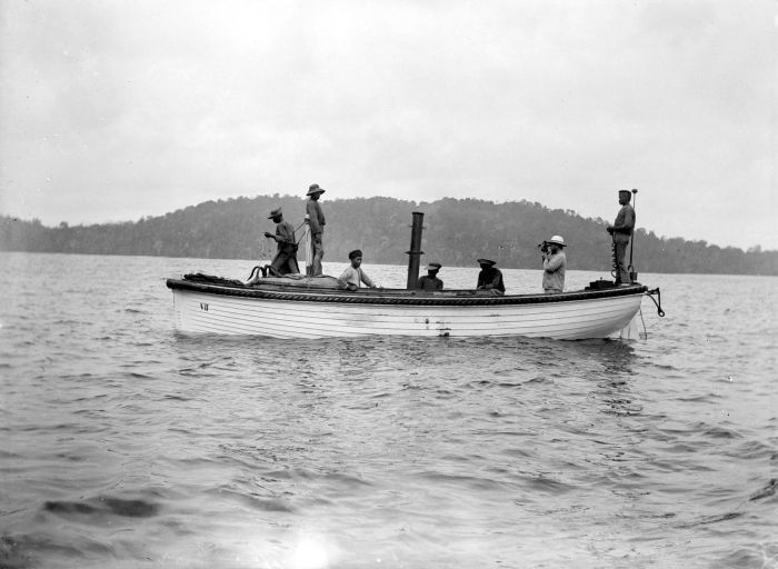 Survey made by members of the Siboga Expedition in a steam sloop